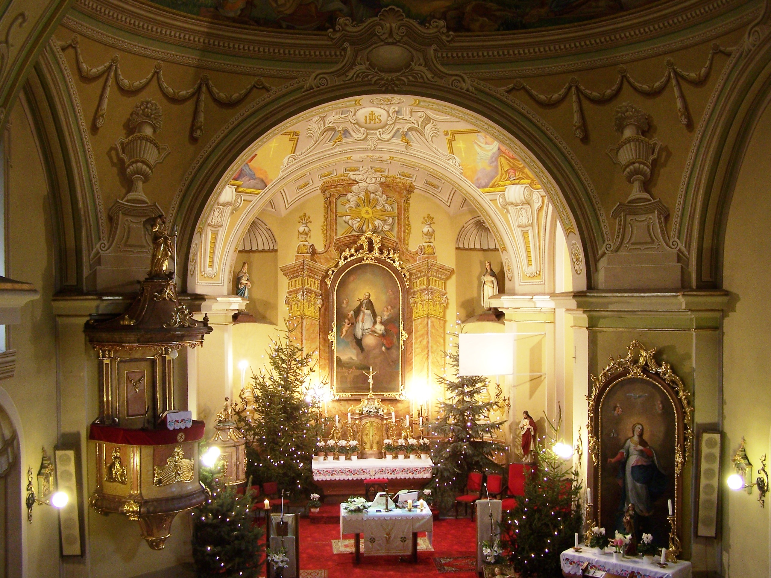 Catholic church of Rákoscsaba, Budapest (Hungary)